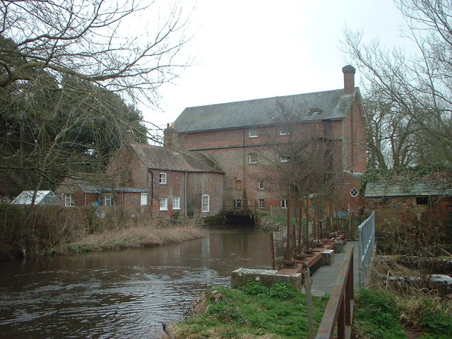 Sopley Mill Sopley Mill is a beautiful Grade II listed building. There was originally a Mill on this site in 1086AD and it is mentioned in the Domesday Book. Through the centuries, repeated rebuilding took place and finally in 1878, this top floor was added to the existing structure. Milling ceased around 1955 and since then the building has been little used until the present time, when it has become a fine restaurant and wedding venue.